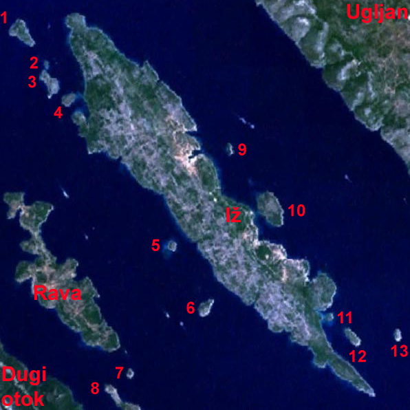 Annotated satelite image of island Iž and nearby small islands.